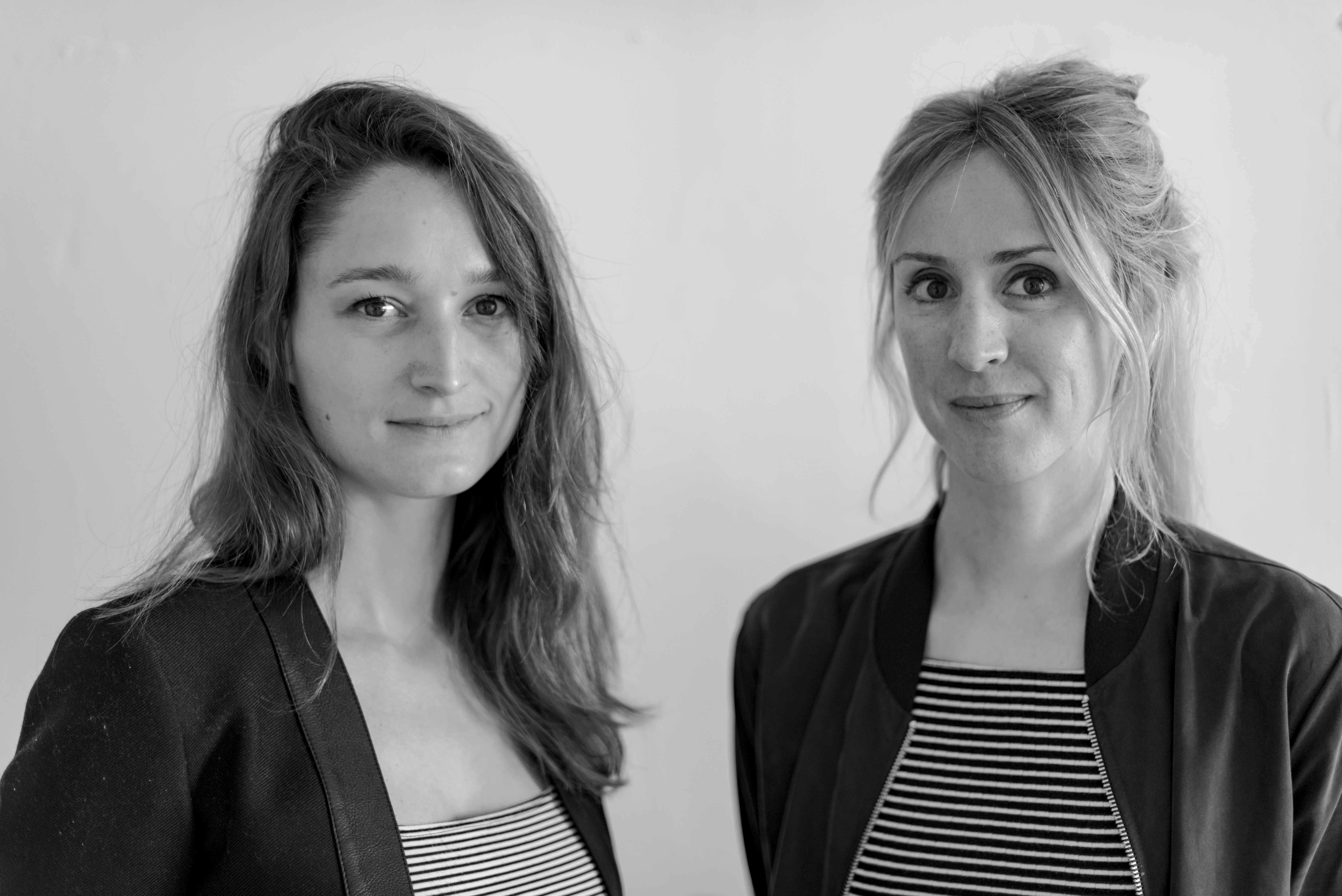 Charlotte Cosson & Emmanuelle Luciani au southway studio